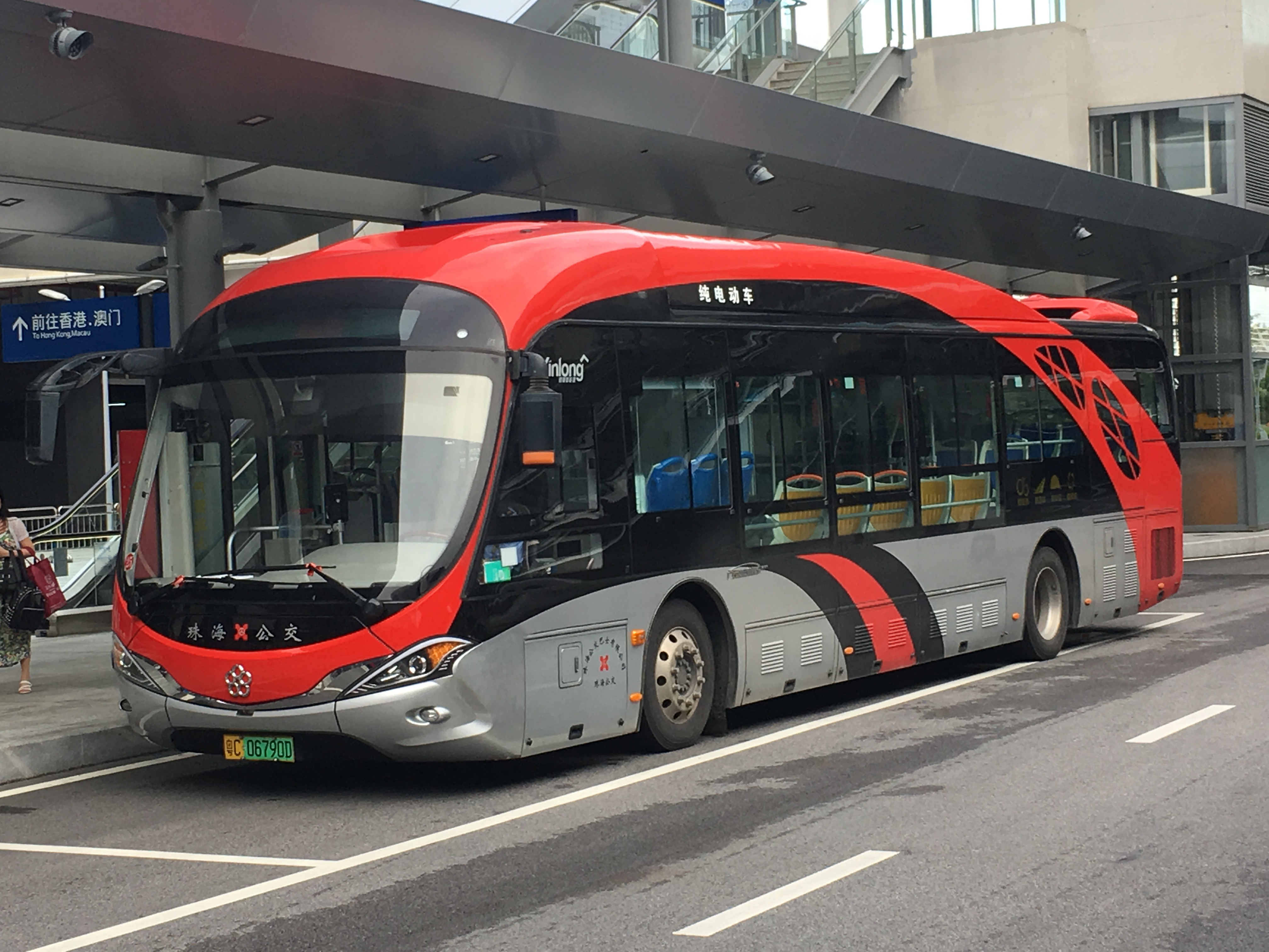 中文（香港）: This photo is taken in HZMB Zhuhai Port.